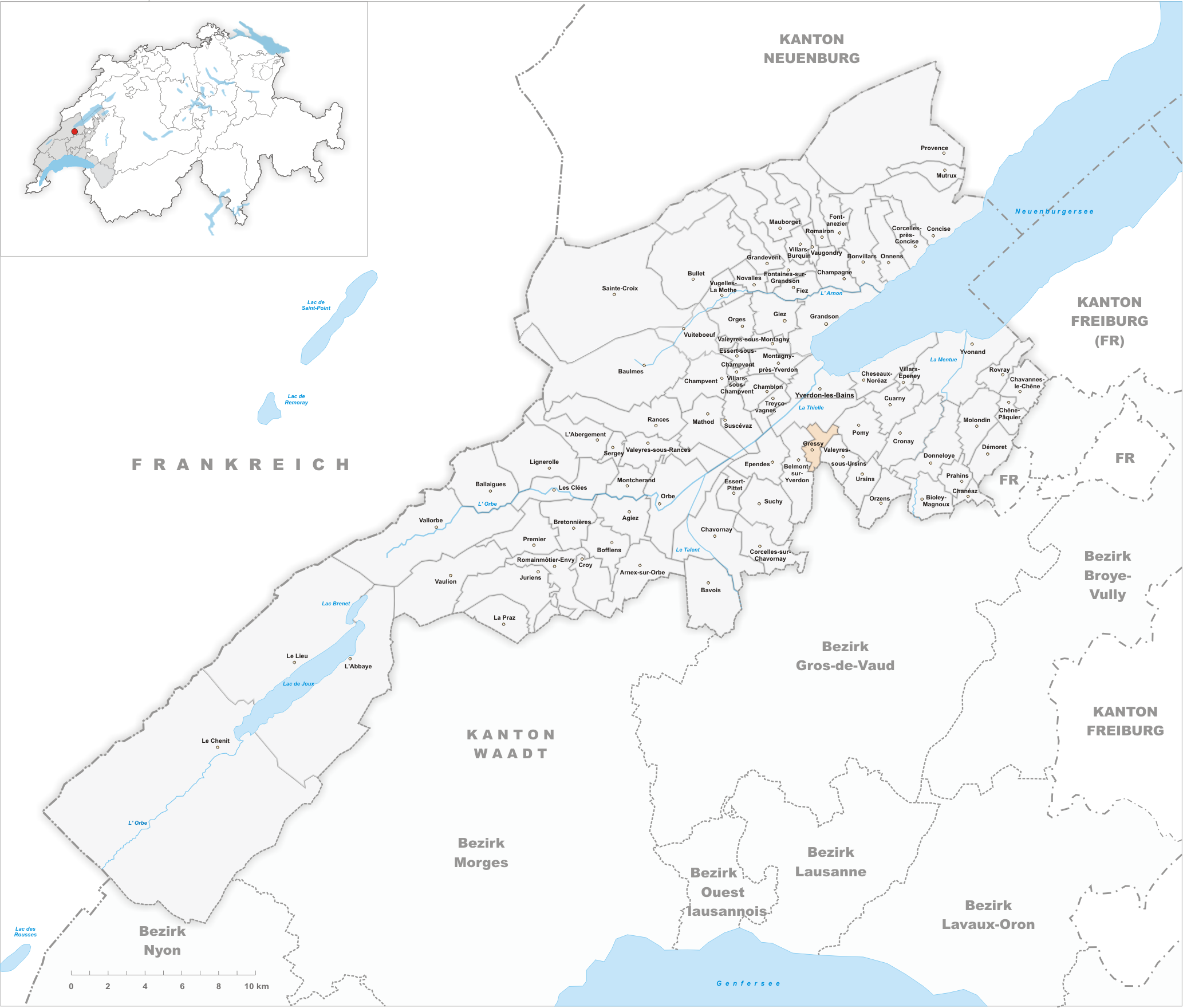 Municipality Gressy